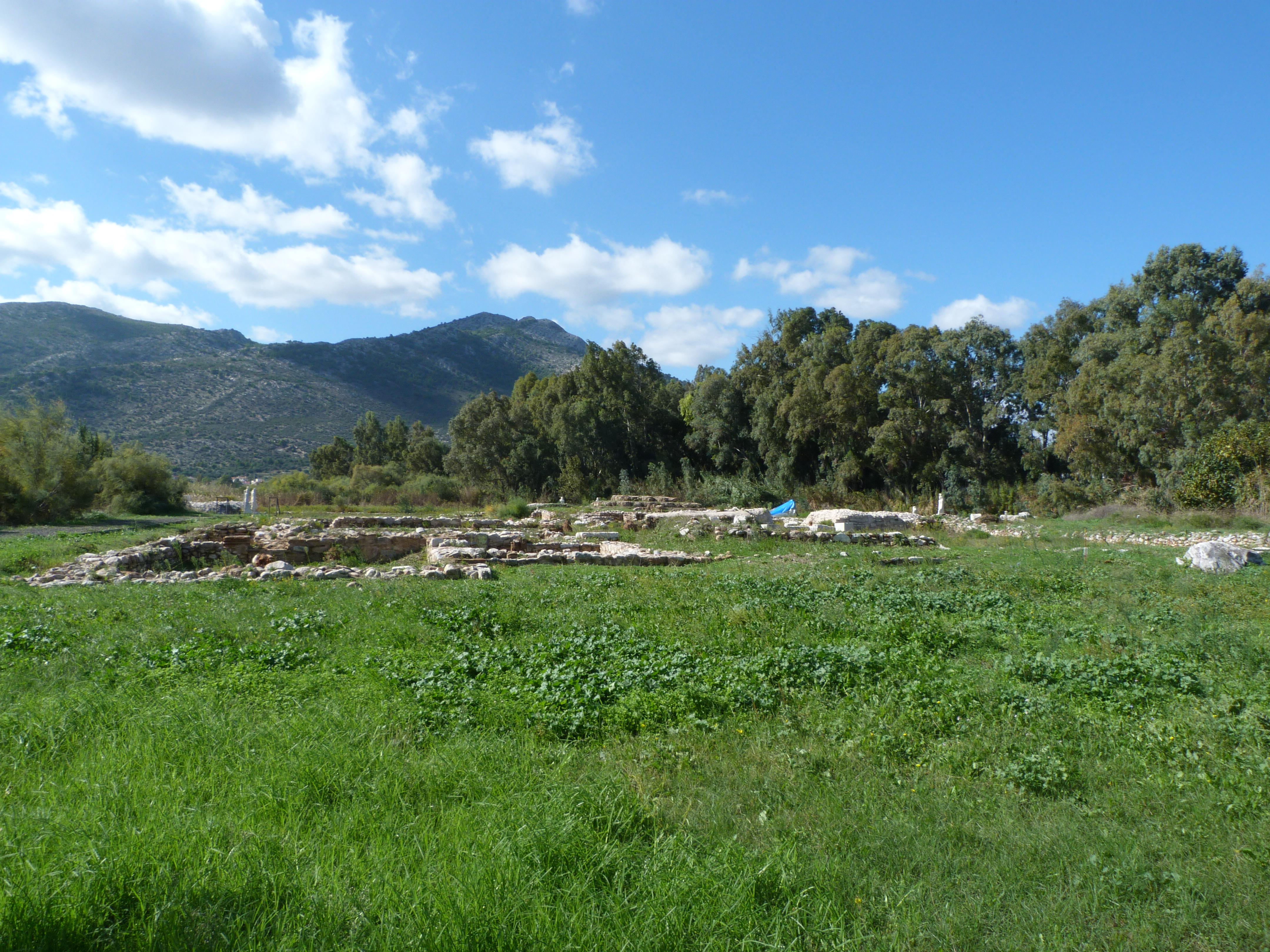 "The complex was founded by Herodes Atticus, around 160 AD. The great orator, sophist and benefactor hailed from Marathon and resided here, and the complex was possibly established within his estate. The sanctuary can be identified as “the sanctuary of Canopus” referred to by Herodes’ biographer Philostratos (2nd-3rd cent. AD). In founding it, Herodes imitated the Emperor Hadrian, who had built a Serapeion on an artificial islet at Tivoli, close to Rome, modeled on the Serapeion of the town of Canopus on the Nile Delta." source